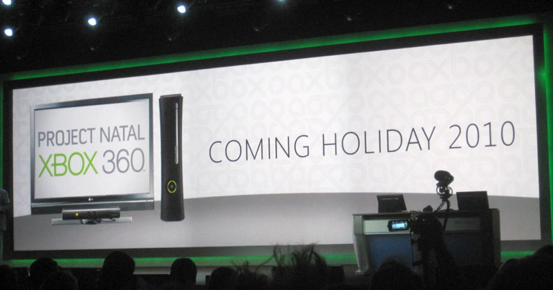 An advertisement relating to Xbox's Kinect (then Project Natal).